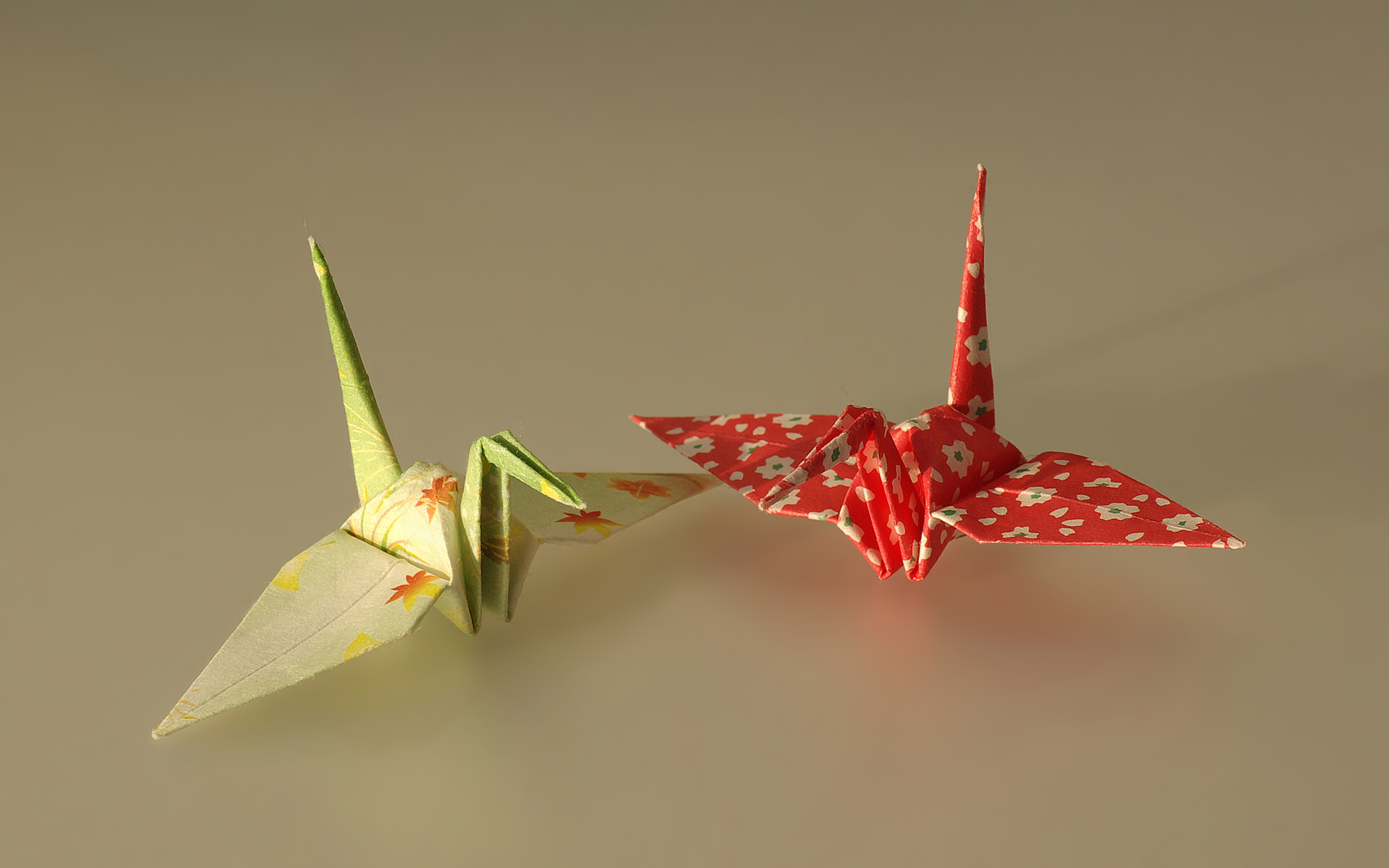 Cranes made by Origami (Washi paper). The height is 35mm.